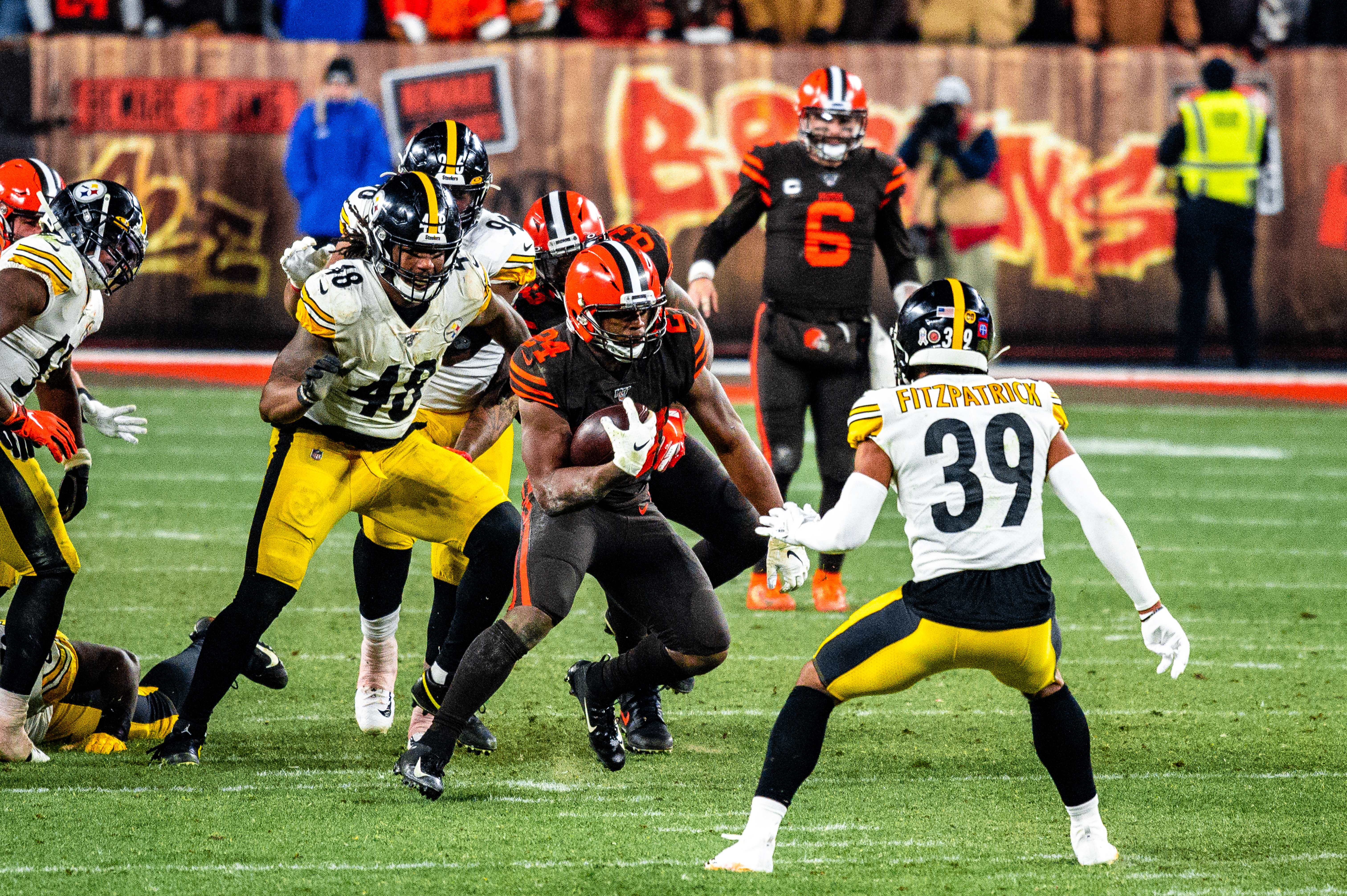 Steelers vs Browns 2019